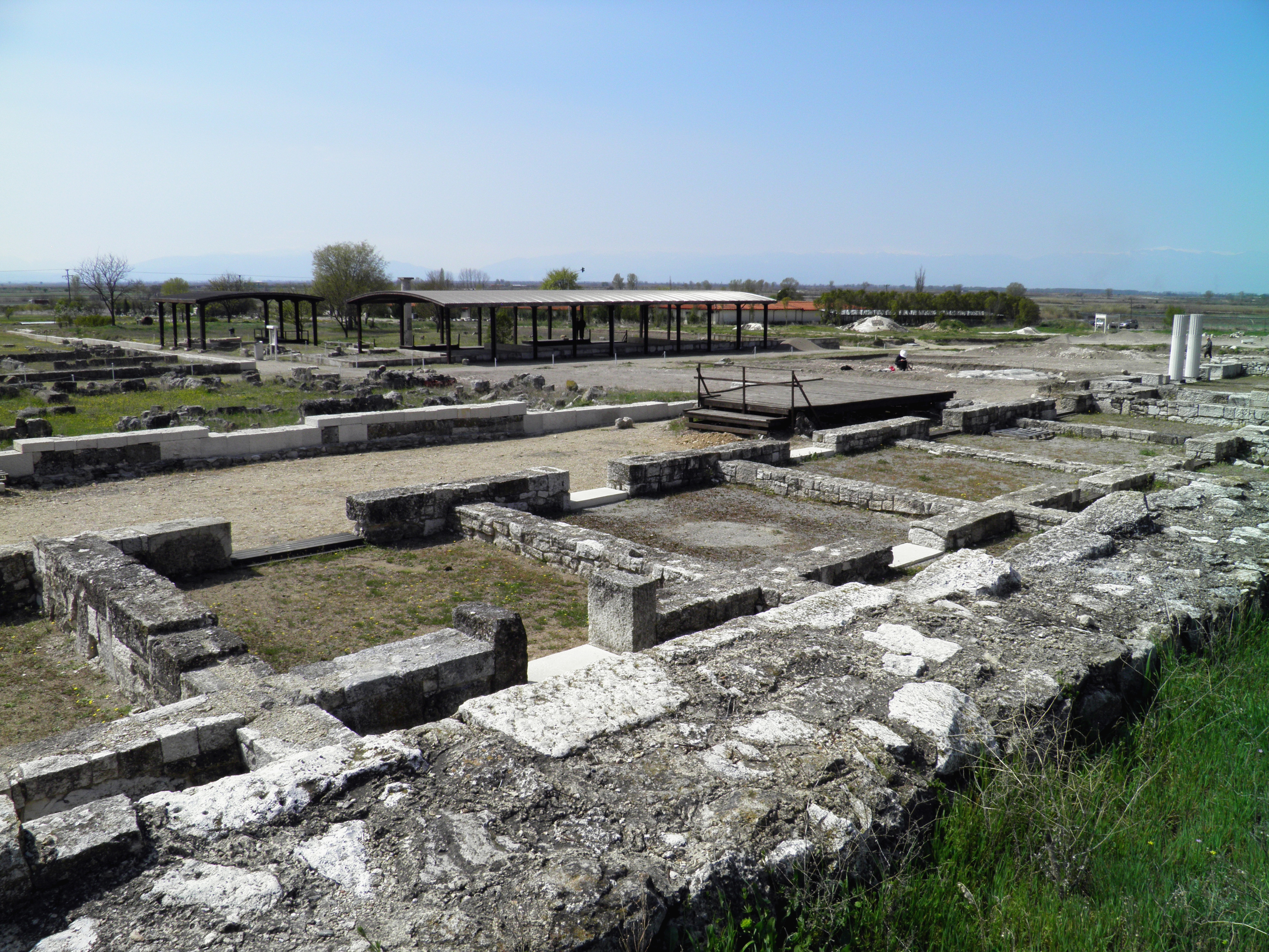 Shops right along the eastern edge of the agora, Pella